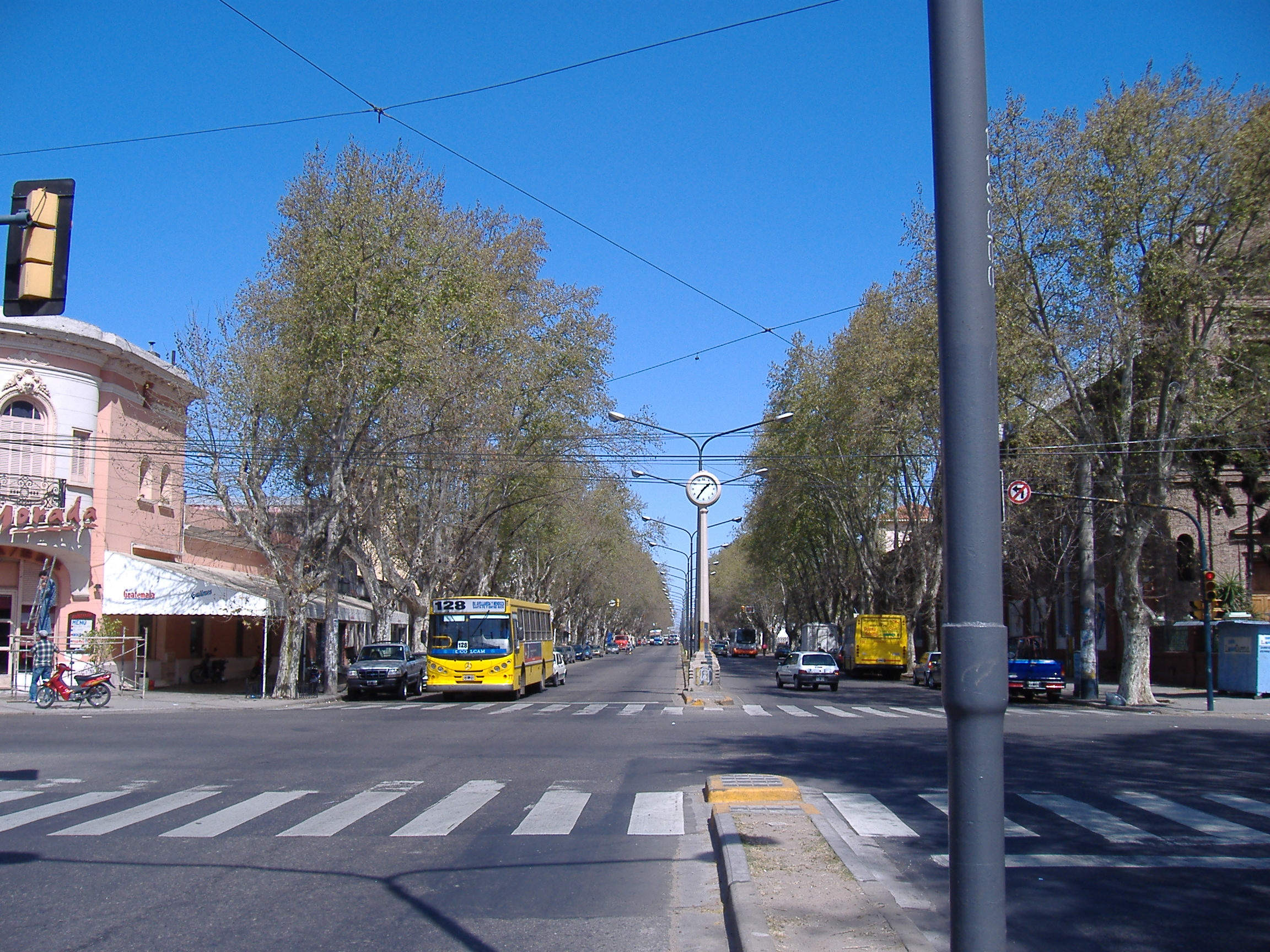 Intersection of Avellaneda Boulevard and Mendoza St., facing north, in Rosario, Argentina.